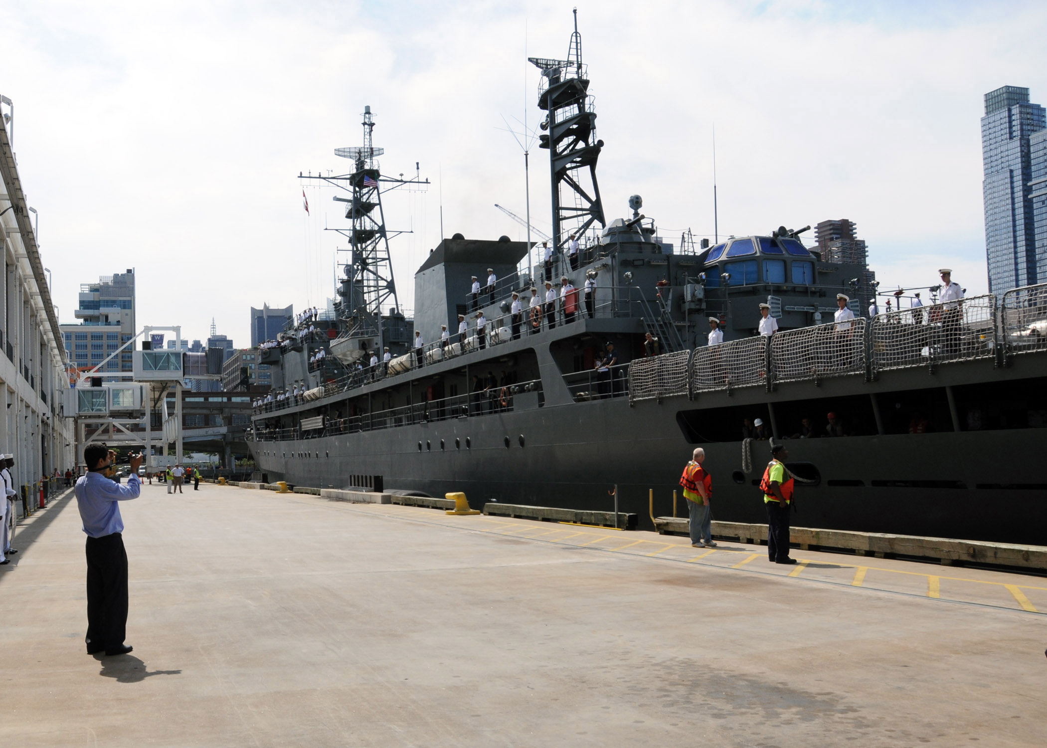 NEW YORK (July 9, 2012) The Algerian navy ship (ANS) Soummam (937) pulls into New York City's pier 88, marking the first time an Algerian navy ship has visited the United States. During their visit, the Algerian crew will tour the city and conduct office calls with city and government officials. Soummam transited the Atlantic from Algeria as part of a training mission for Algerian naval academy students.